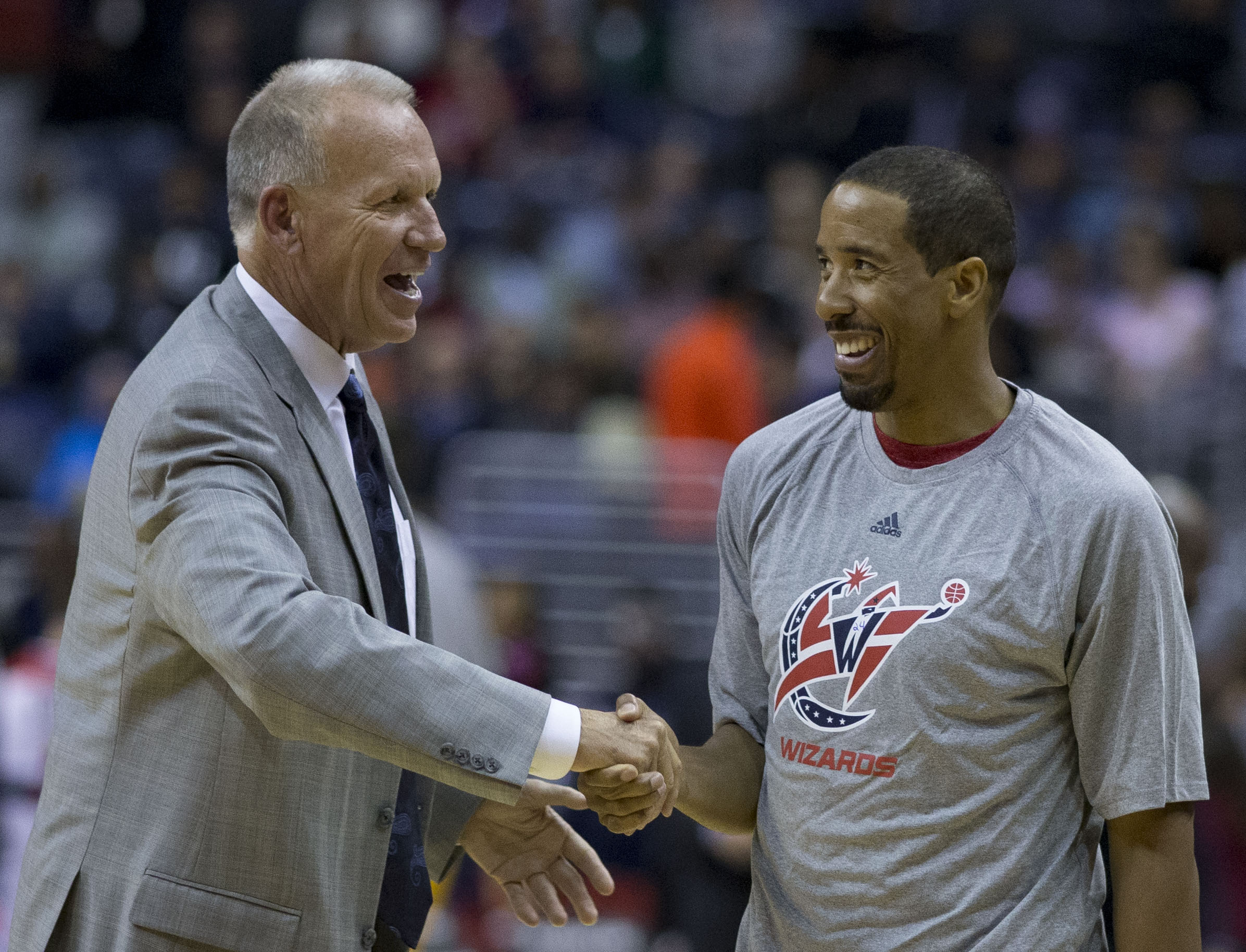 Pacers at Wizards 11/05/14